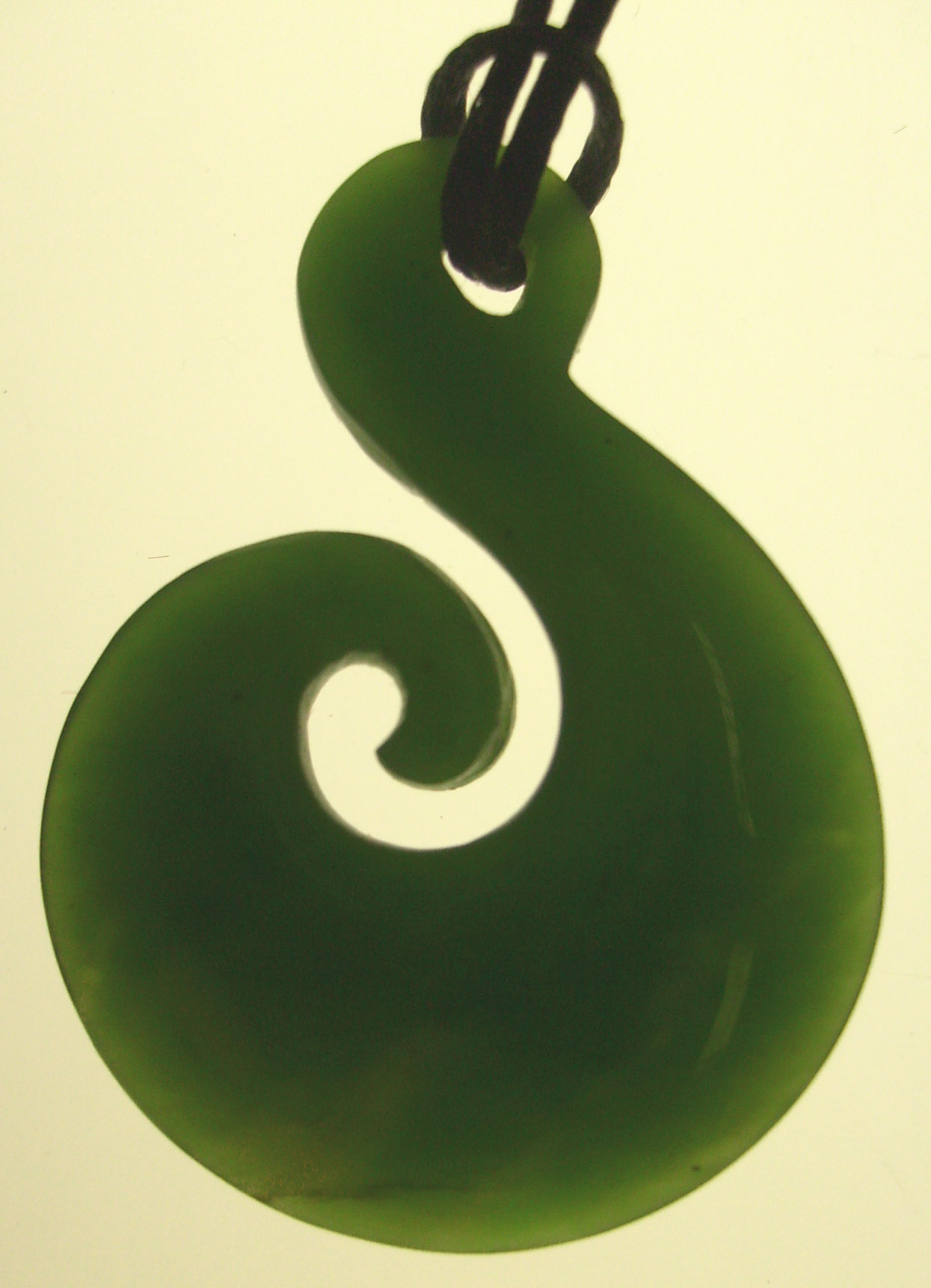 Jade pendant: Māori Style Ornamental Hook; NewZealand "Greenstone" work